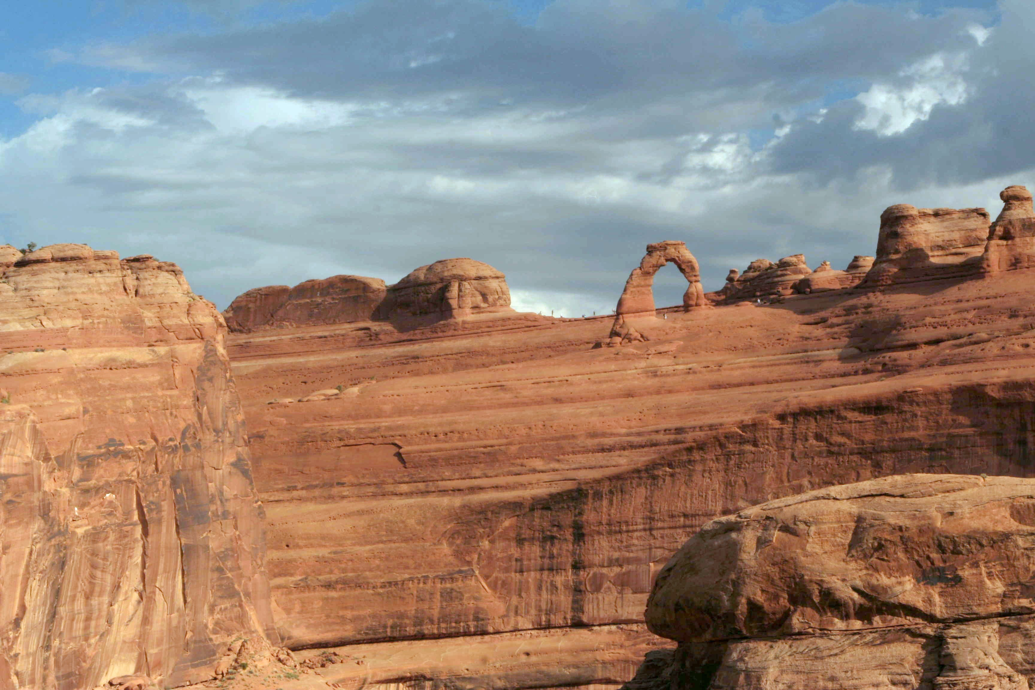 Delicate Arch from Delicate Arch view point. Arches Nationalpark, Utah, USA